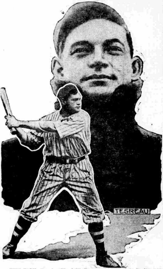 Professional baseball player Jeff Tesreau